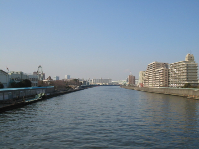 Looking west along the Sumidagawa River in Tokyo Japan.